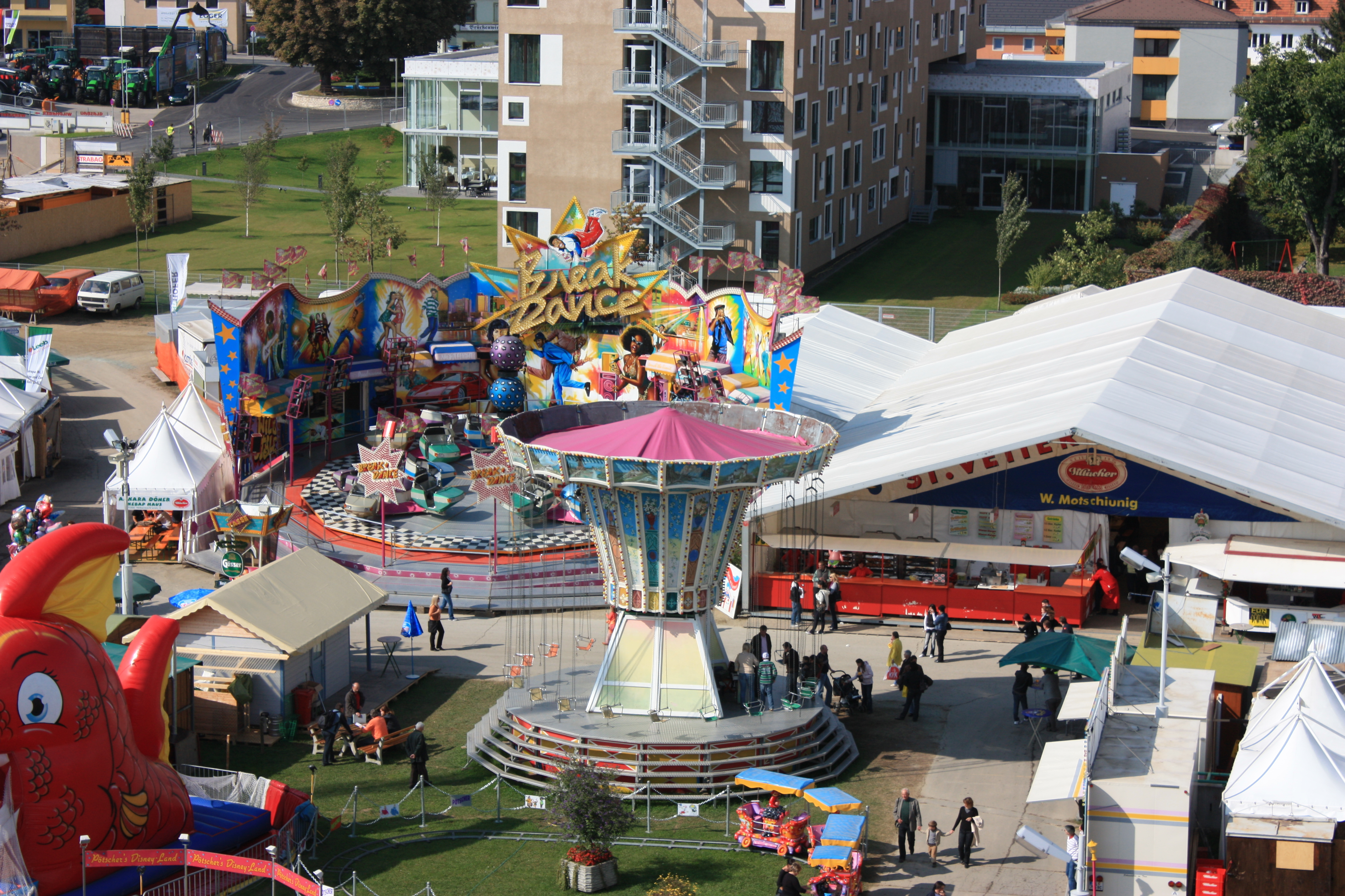 Fair of Sankt Veit Locality: Sankt Veit an der Glan Community:Sankt Veit an der Glan